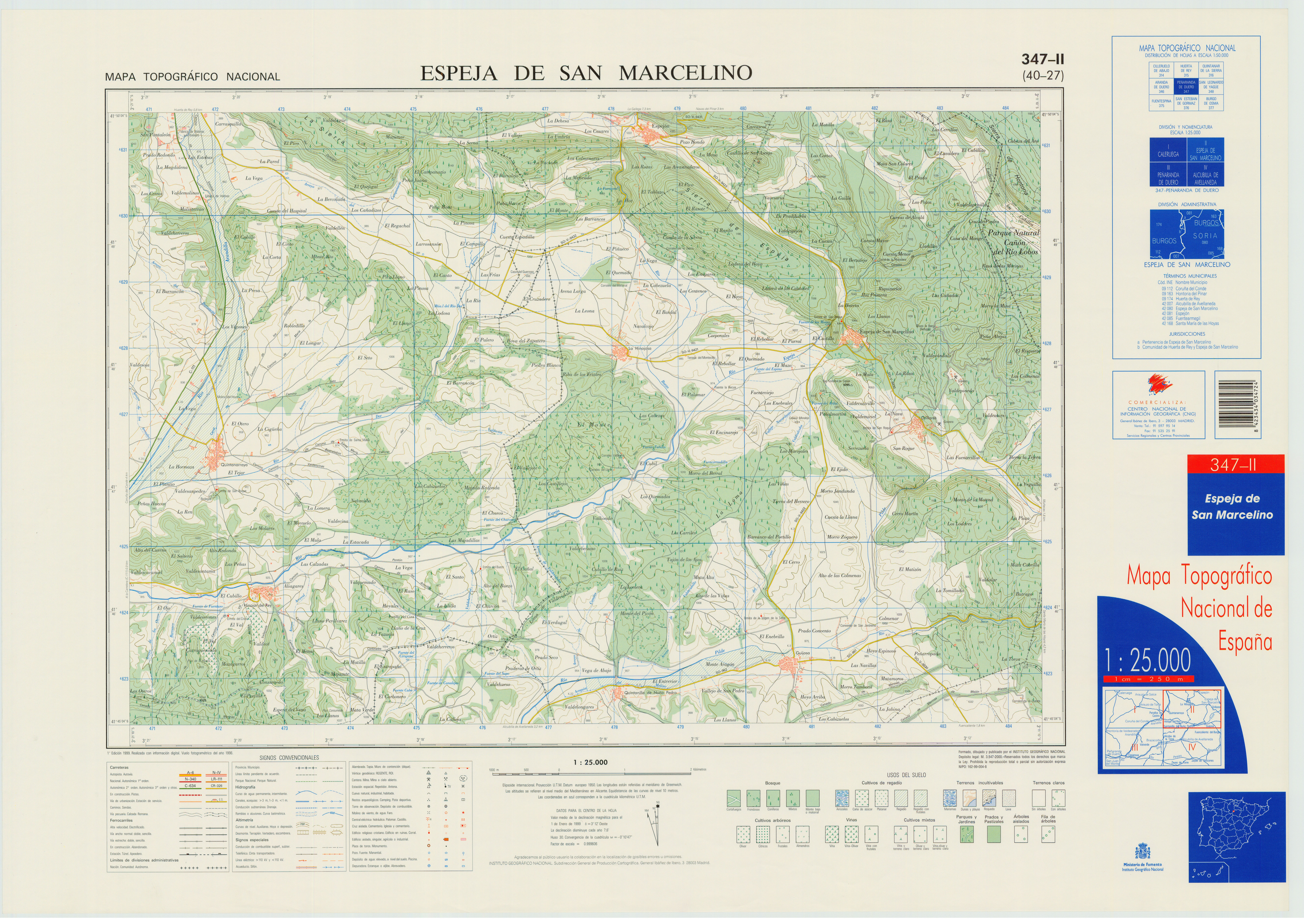 Fragment 0347c2 of the National Topographic Map of Spain in 1999 at a scale of 1:25000 printed and scanned with a resolution of 250 ppi. It shows Espeja de San Marcelino.